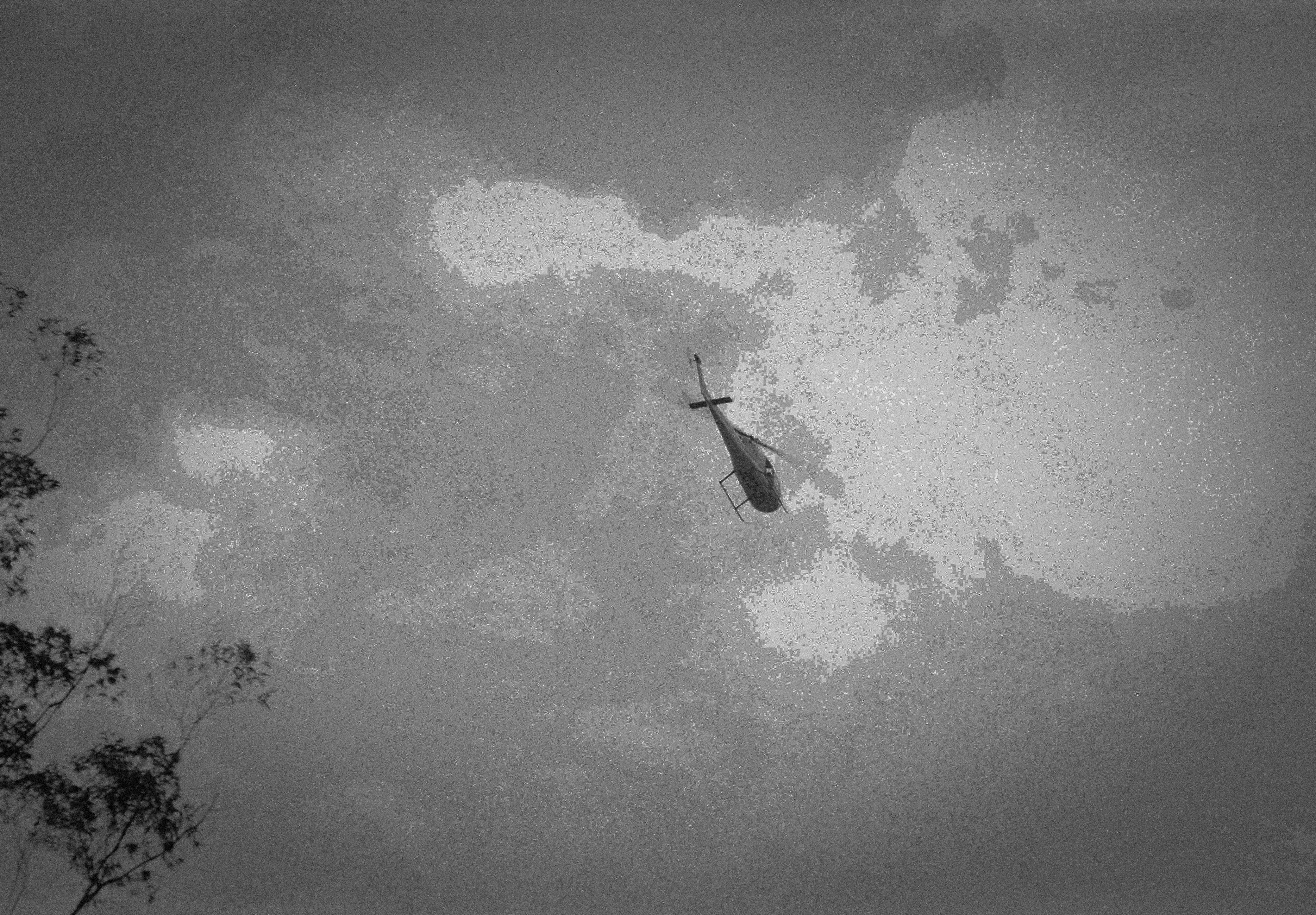 Images of Mexico City Student Movement, October 1968.